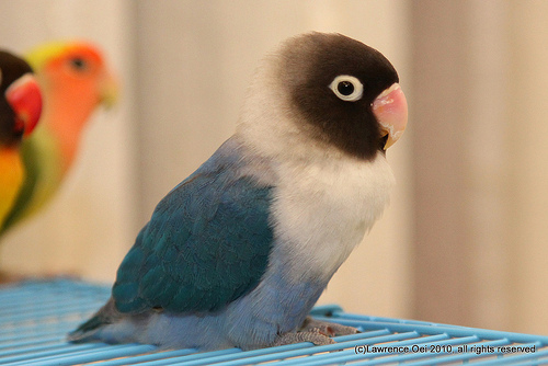 Black-masked lovebird (Agapornis Personata) with cobalt color mutation